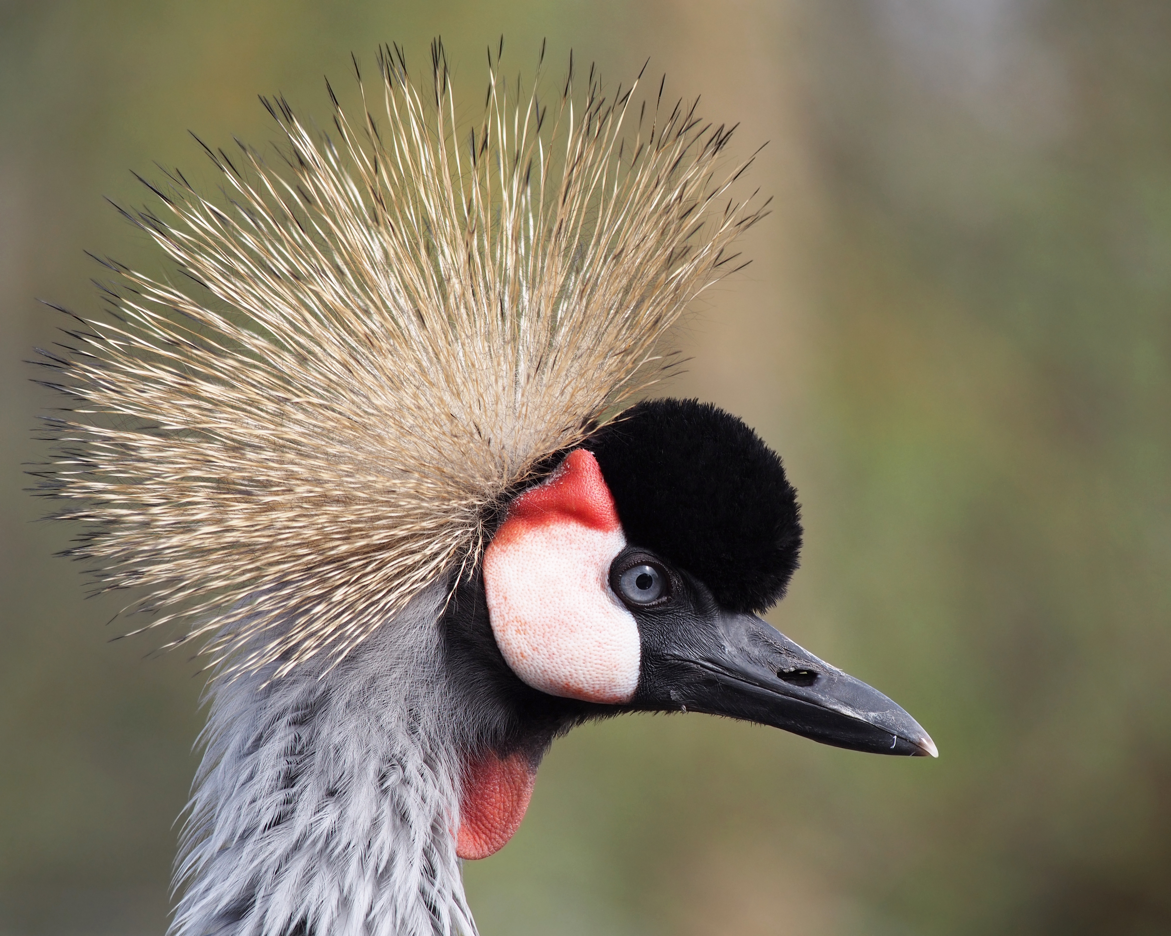 Grey Crowned Crane, Balearica regulorum. Martin Mere, Lancashire, UK